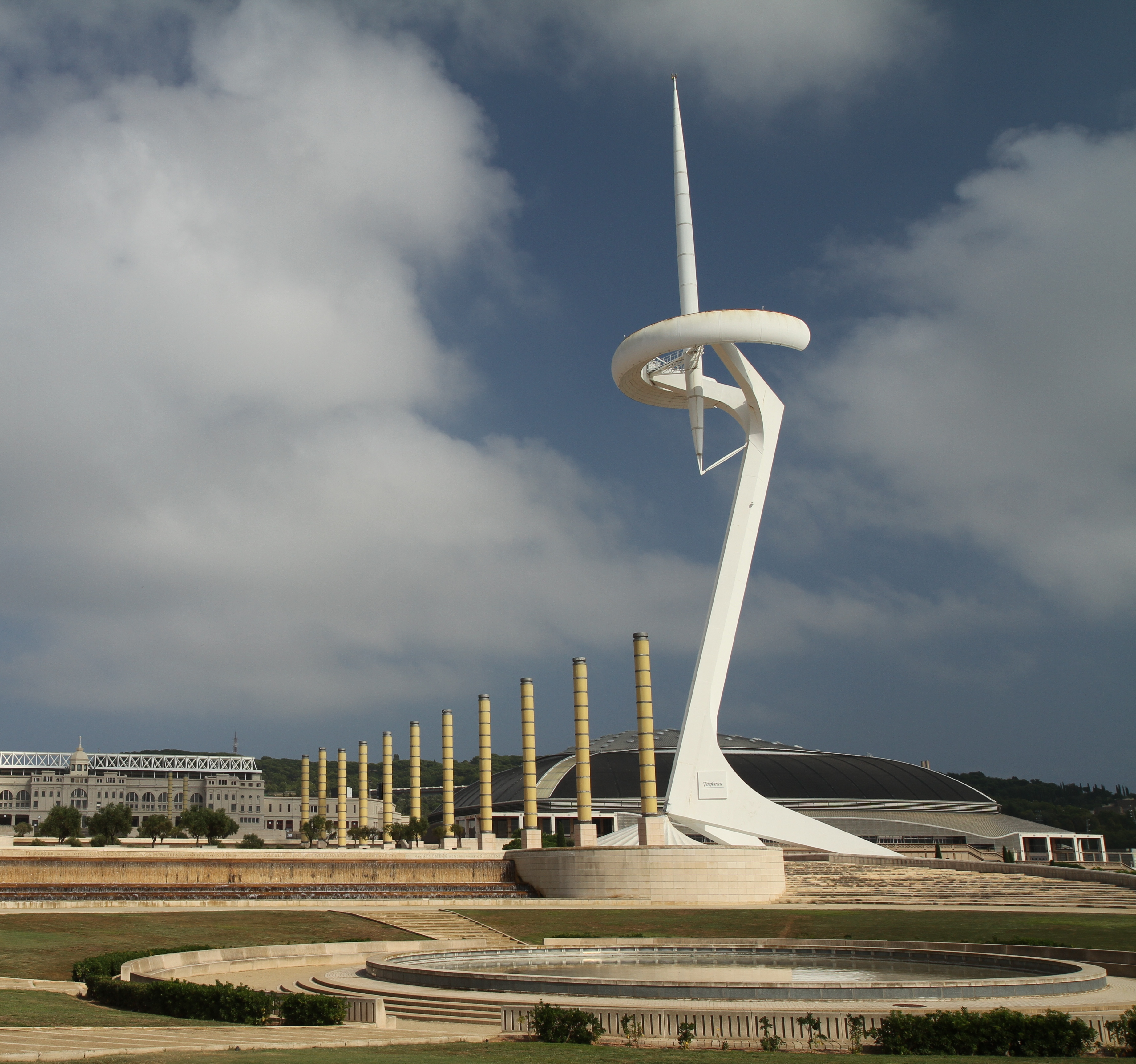 The Montjuïc Communications Tower, popularly known as Torre Calatrava and Torre Telefónica in Barcelona, Catalonia, Spain